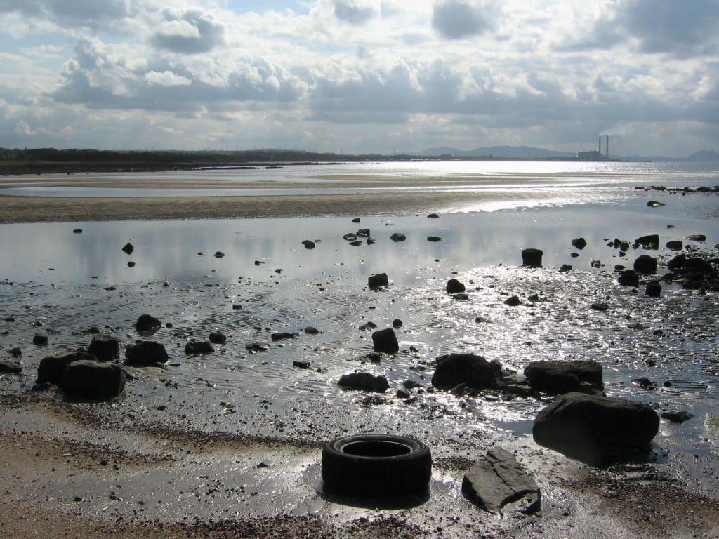 Longniddry Bents, East Lothian, Scotland